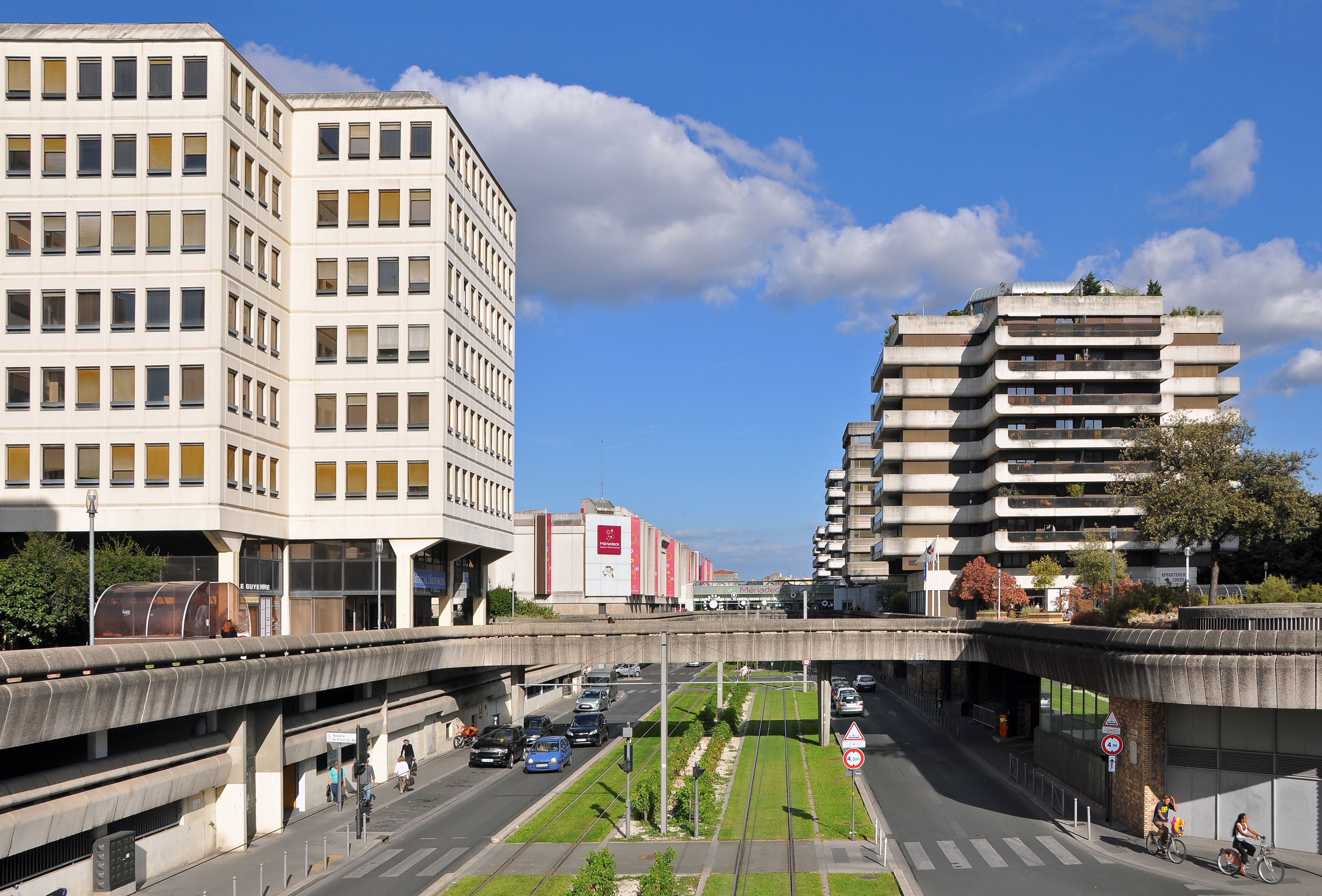 Bordeaux (France): the Mériadeck quarter